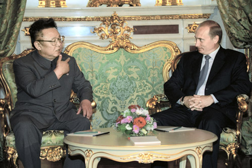 THE GRAND KREMLIN PALACE, MOSCOW. President Putin meeting with North Korean leader Kim Jong Il.